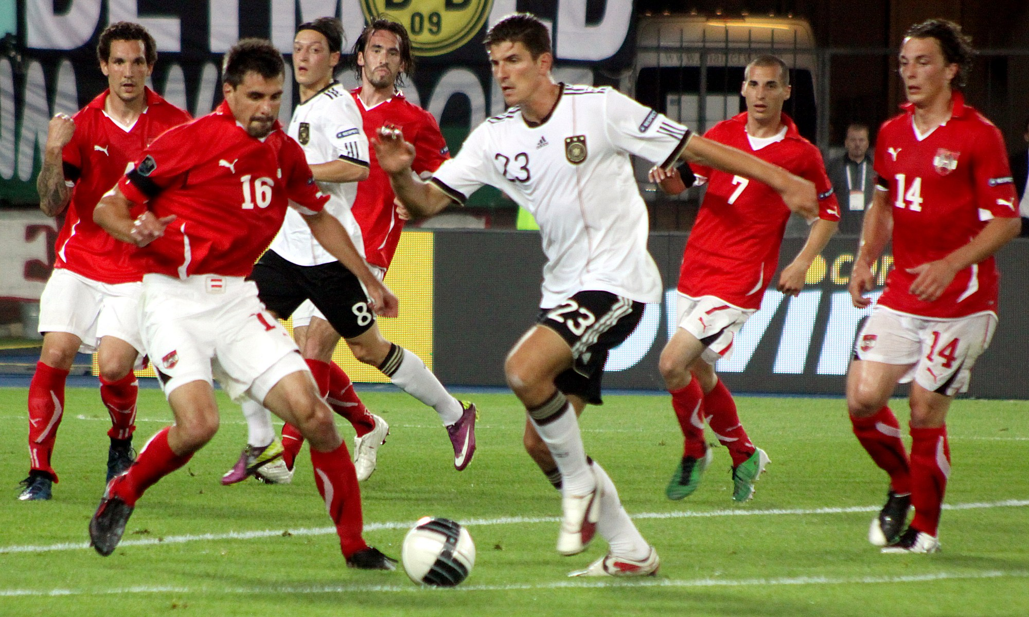 Qualifying for the UEFA Euro 2012 Austria (red shirt) vs. Germany (white Shirt) 1:2 (0:1) at 2011-06-03 in Vienna (Ernst-Happel-Stadion) — The photo shows (fron left to right): Emanuel Pogatetz (Hannover 96), Paul Scharner (West Bromwich Albion), Mesut Özil (Real Madrid), Christian Fuchs (1. FSV Mainz 05), Mario Gómez (FC Bayern München), Stefan Kulovits (SK Rapid Wien), Julian Baumgartlinger (FK Austria Wien).